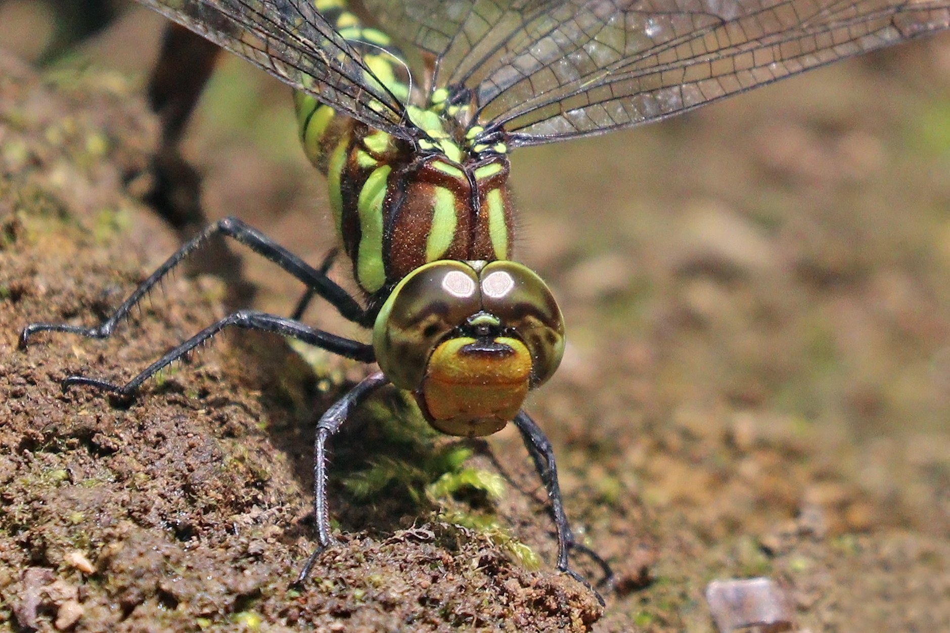 Aeshna petalura female laying eggs, Mount Phulchowki (2,640m), Nepal